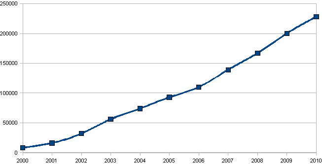 Number of projects hosted of (by years)